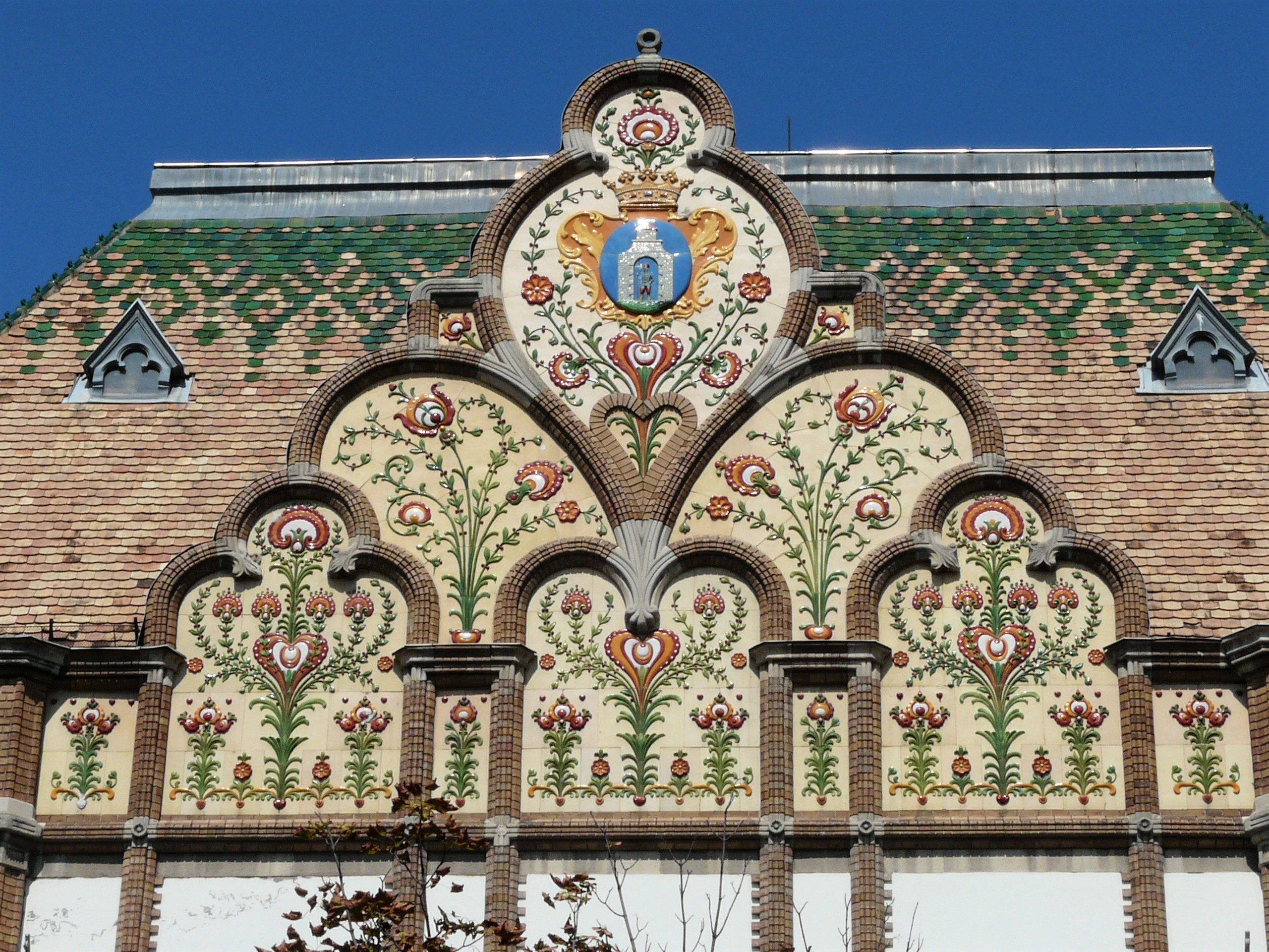 Town Hall of Kiskunfélegyháza, Hungary. Detail.